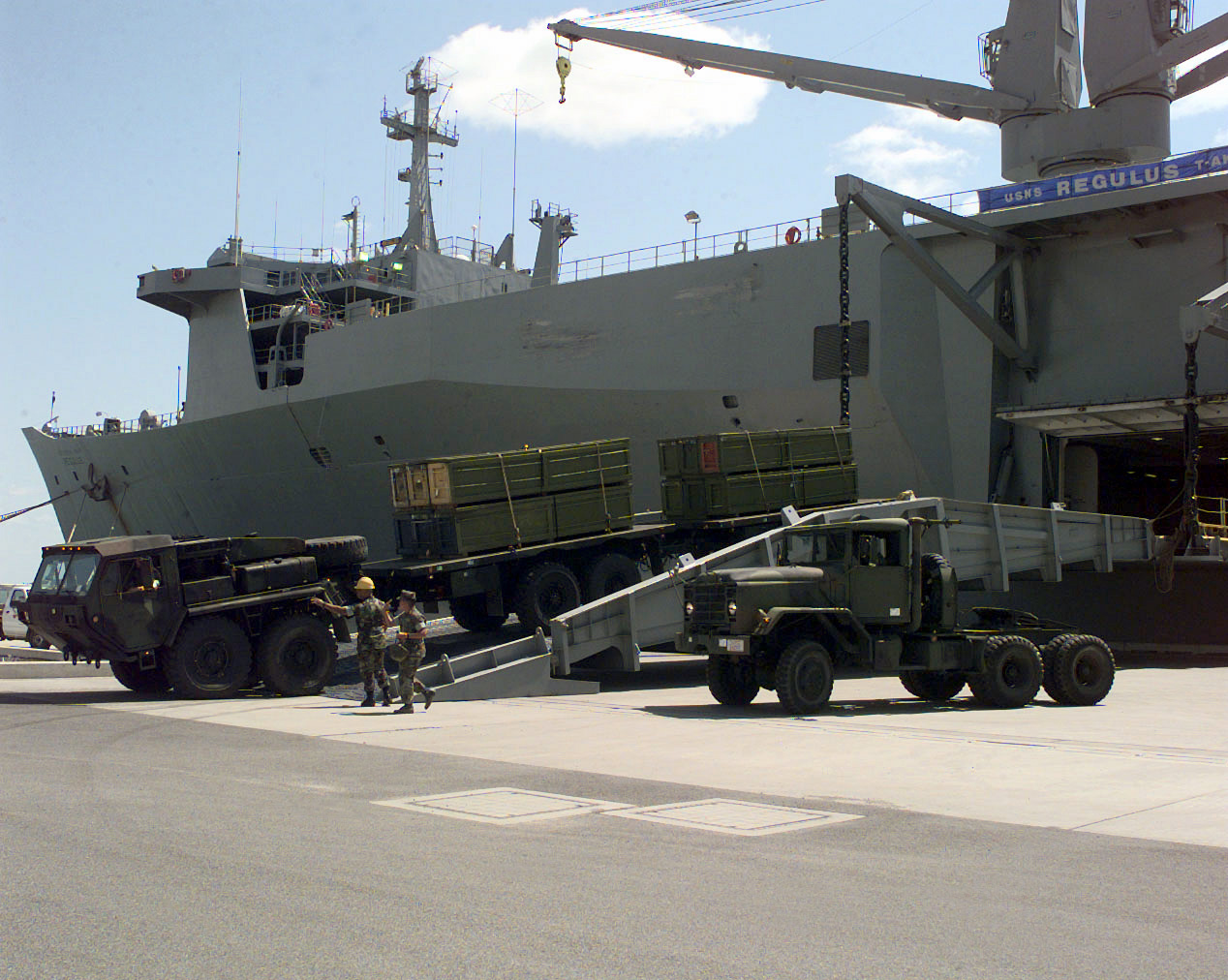 USNS Regulus (T-AKR-292) offloading a US Marine Logistic Vehicle System (LVS) at Auckland Port, Gladstone, Australia, during exercise Crocodile '99.